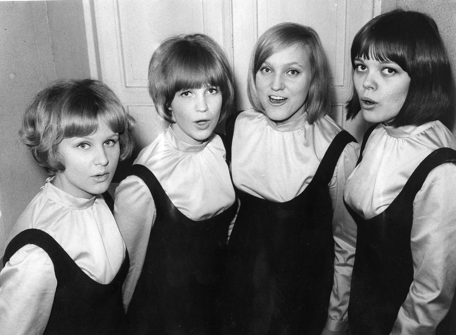 Photograph of the Finnish song group Pirkan neidot: Maija Vikman, Pirjo Nallikari, Irma Niemi and Pirkko-Liisa Lampela